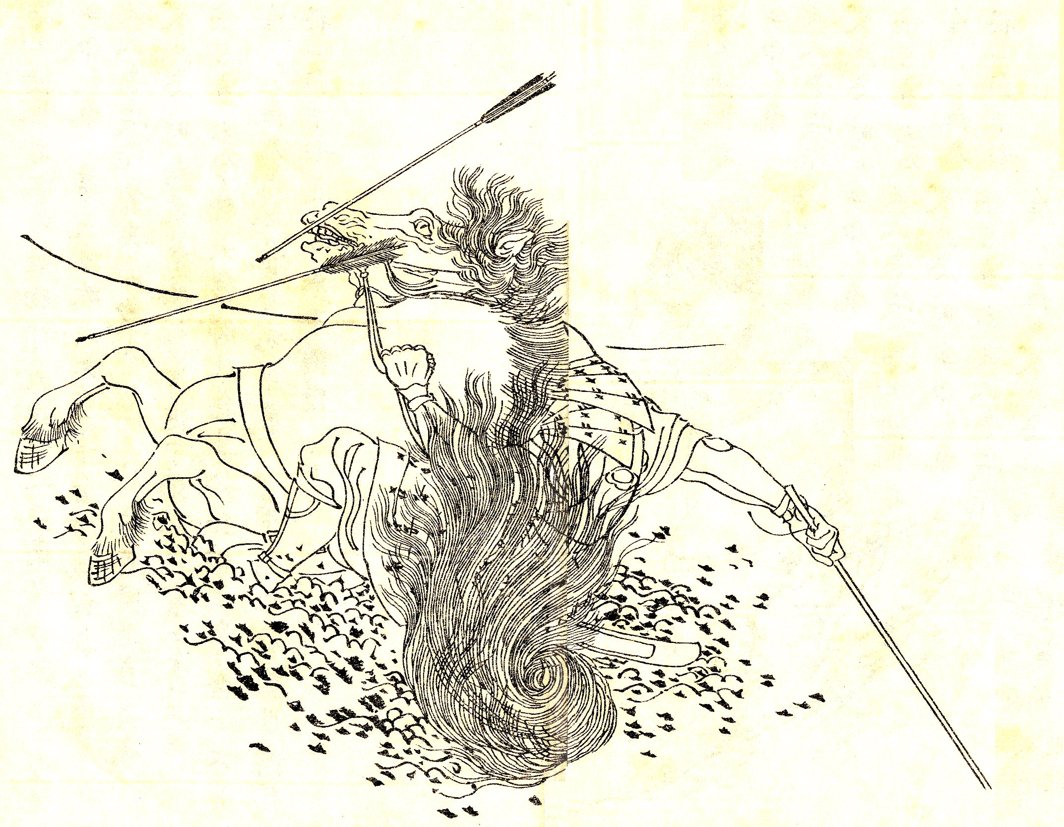 Ioi no Kujira(廬井鯨) was a Japanese figure in Asuka period.